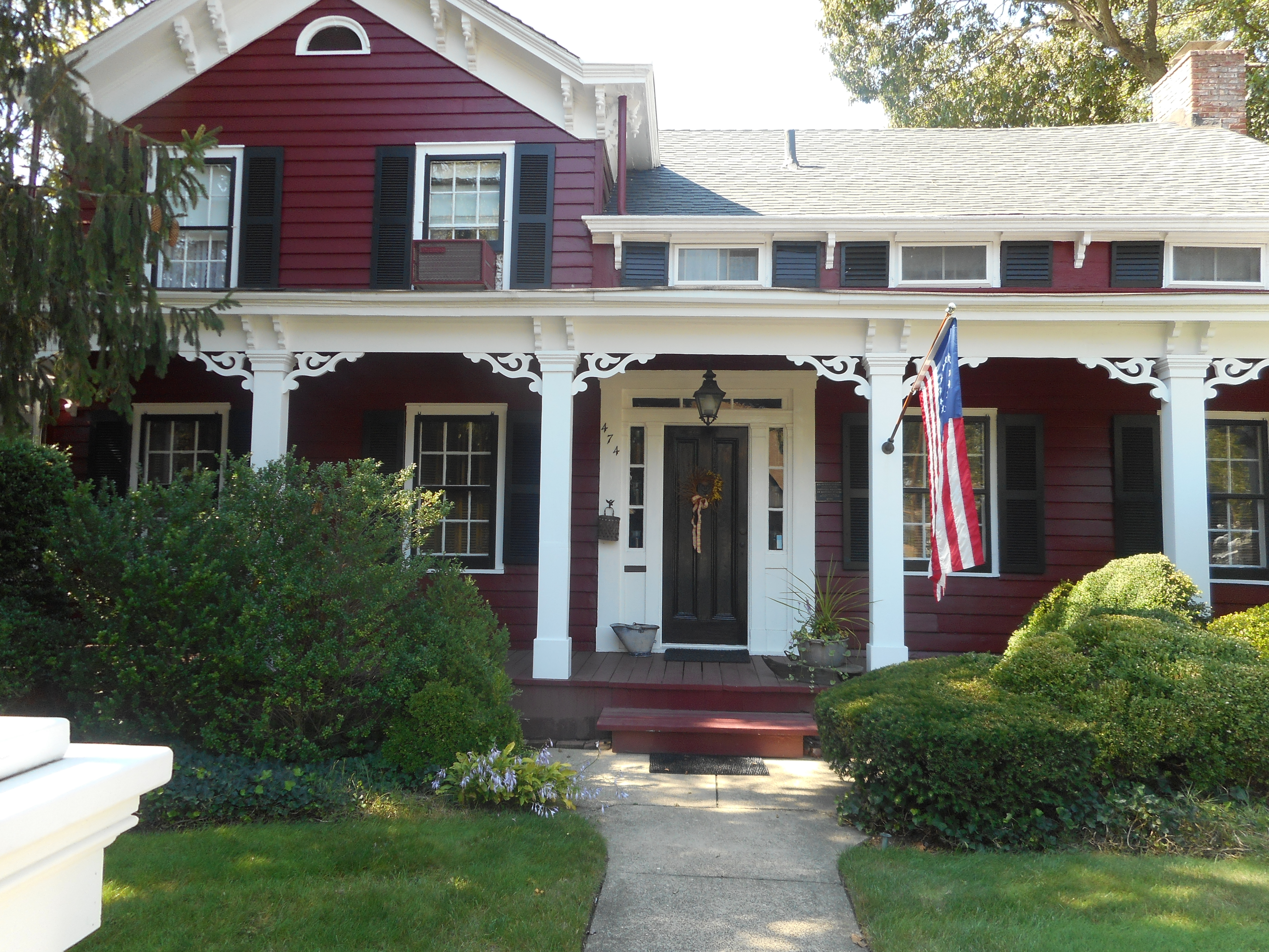 Historic house at 474 Ocean Avenue in Lynbrook, New York. Further details to come later.